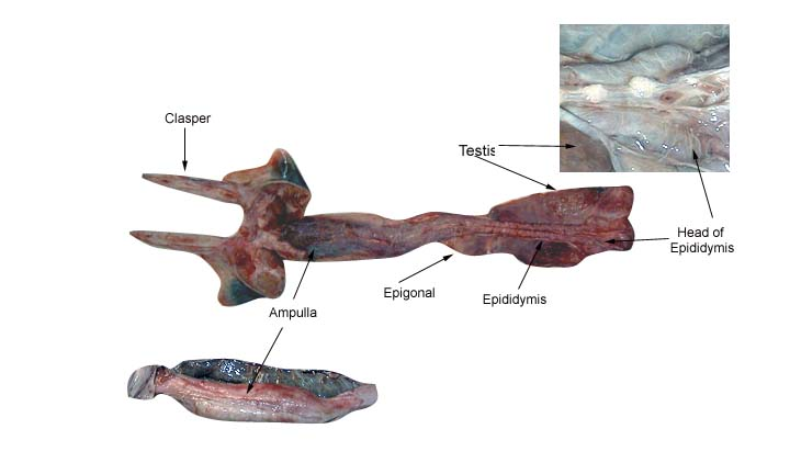 Reproductive system of a male porbeagle (Lamna nasus).